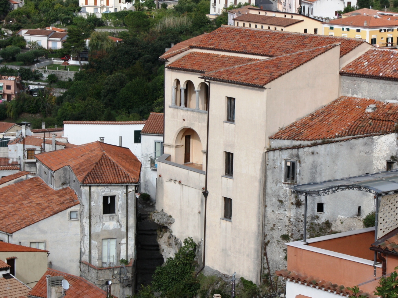 Palazzo De Lieto in Maratea